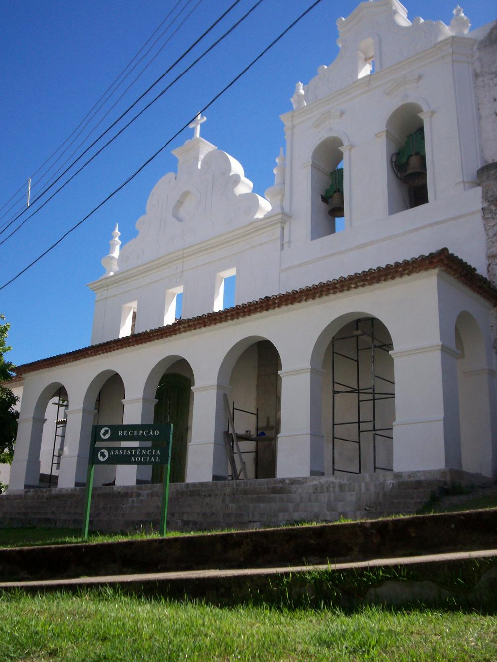 Restauração